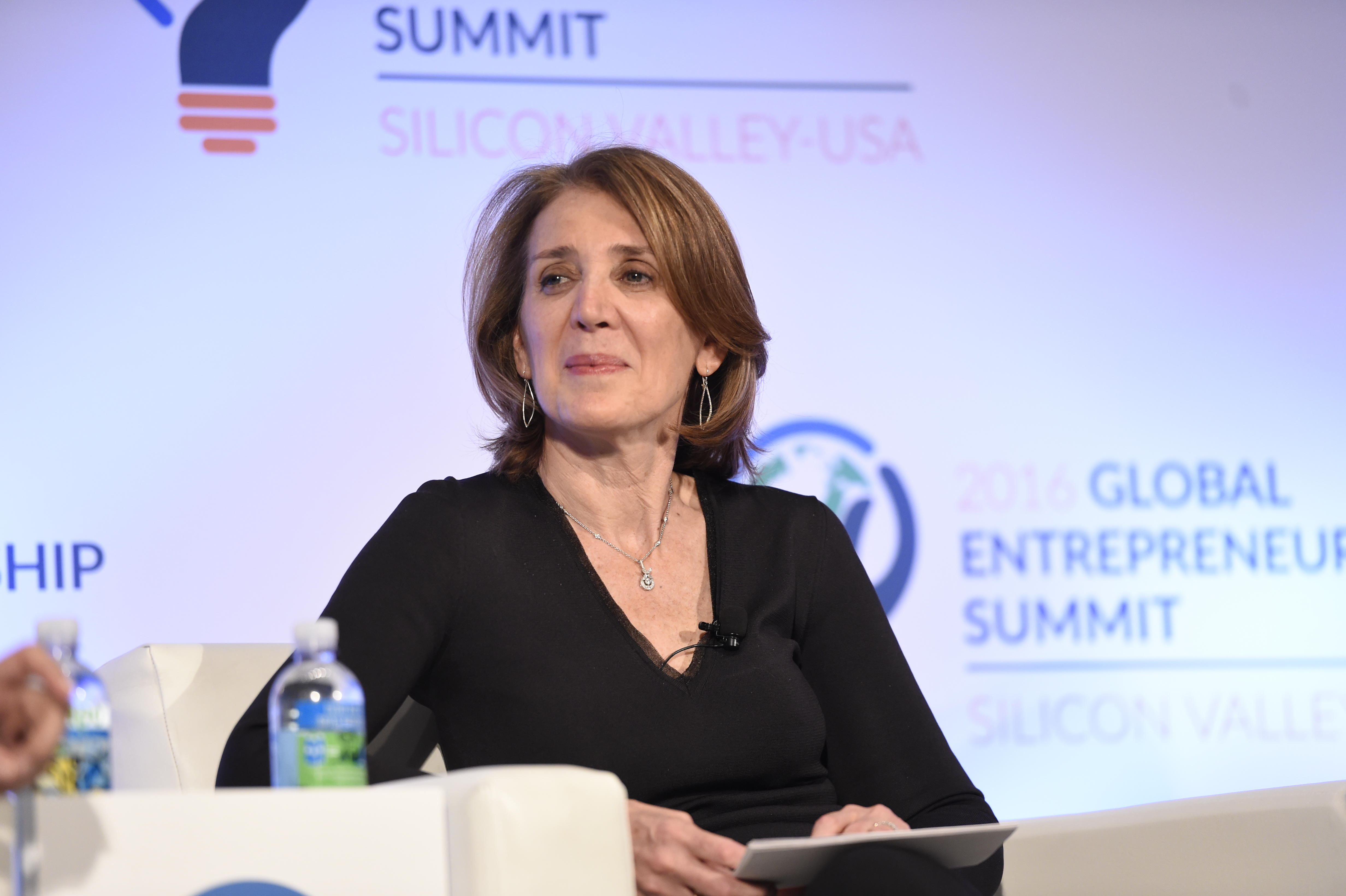 Breakout Session on Women’s Entrepreneurial Leadership Google's Chief Financial Officer Ruth Porat speaks at a panel discussion at the Global Entrepreneurship Summit, held on June 22-24, 2016 at Stanford University in Palo Alto, California. [GES Photo/Public Domain]